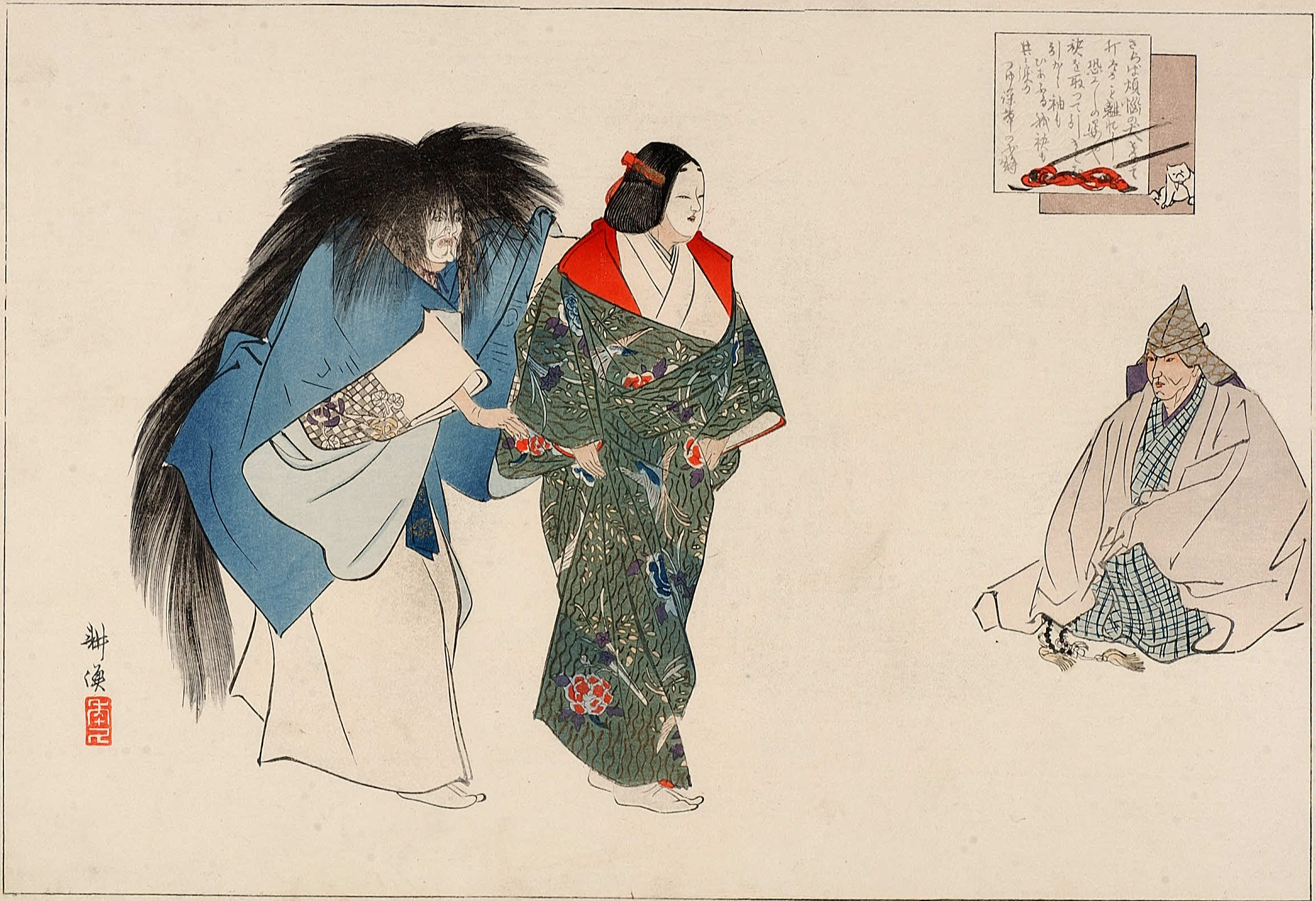 Scene from Nô-play "Kayoi Komachi"